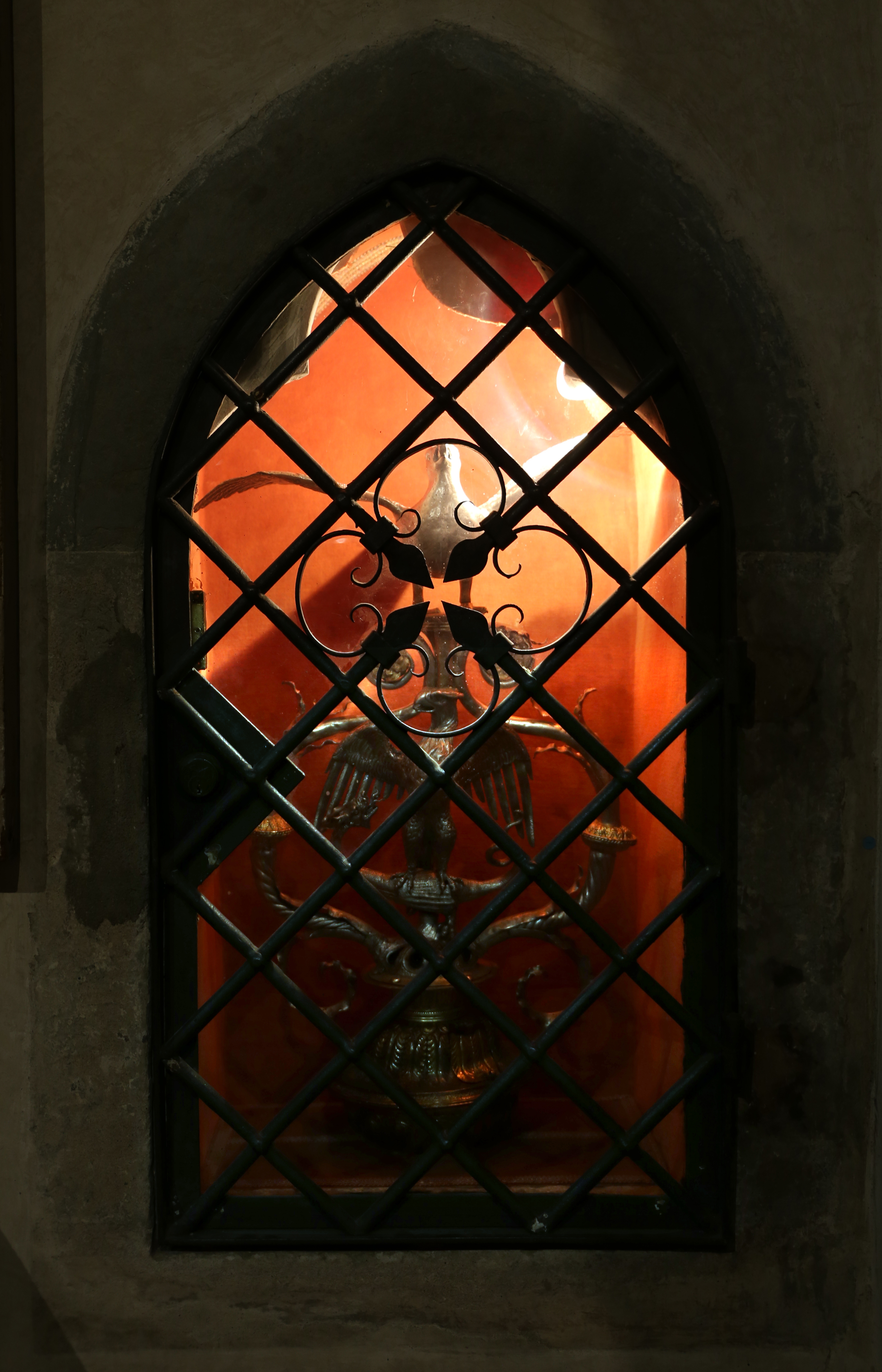 Reliquary of the Holy Fire Stones of Florence